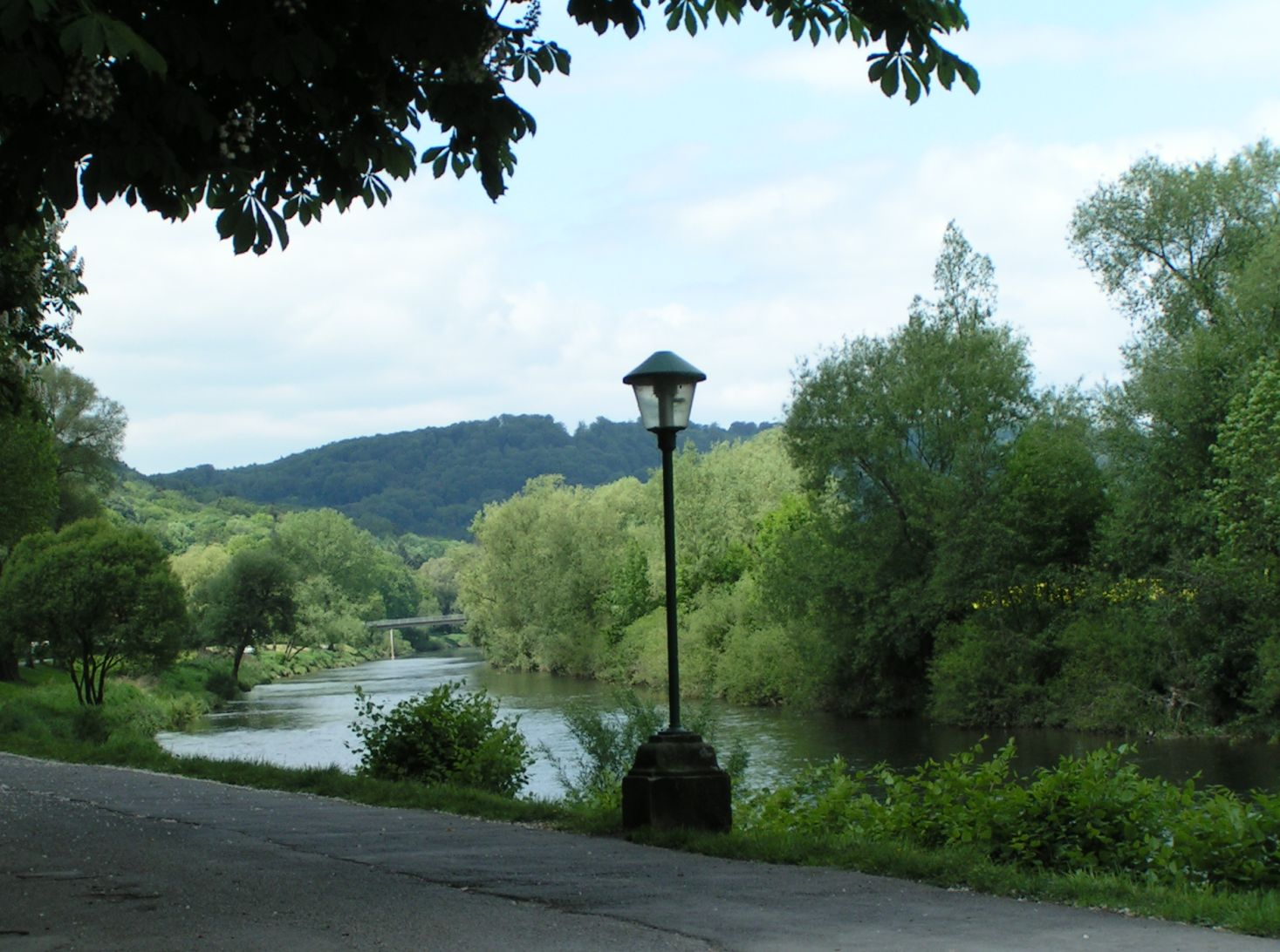 The Sûre river at Echternach